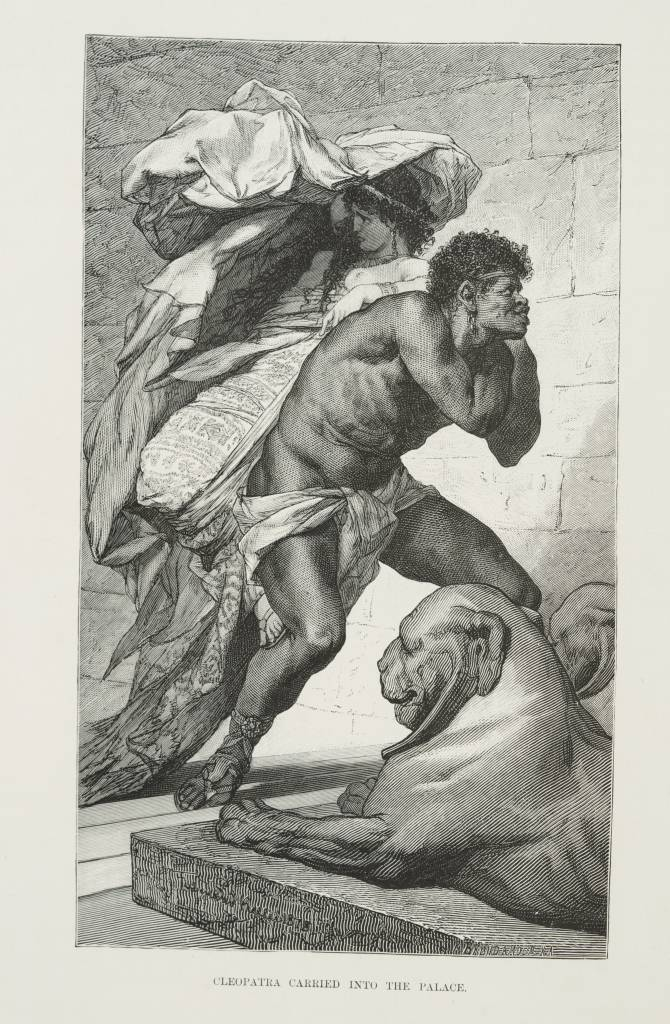 A servant carries Cleopatra on his back up the steps to a palace.